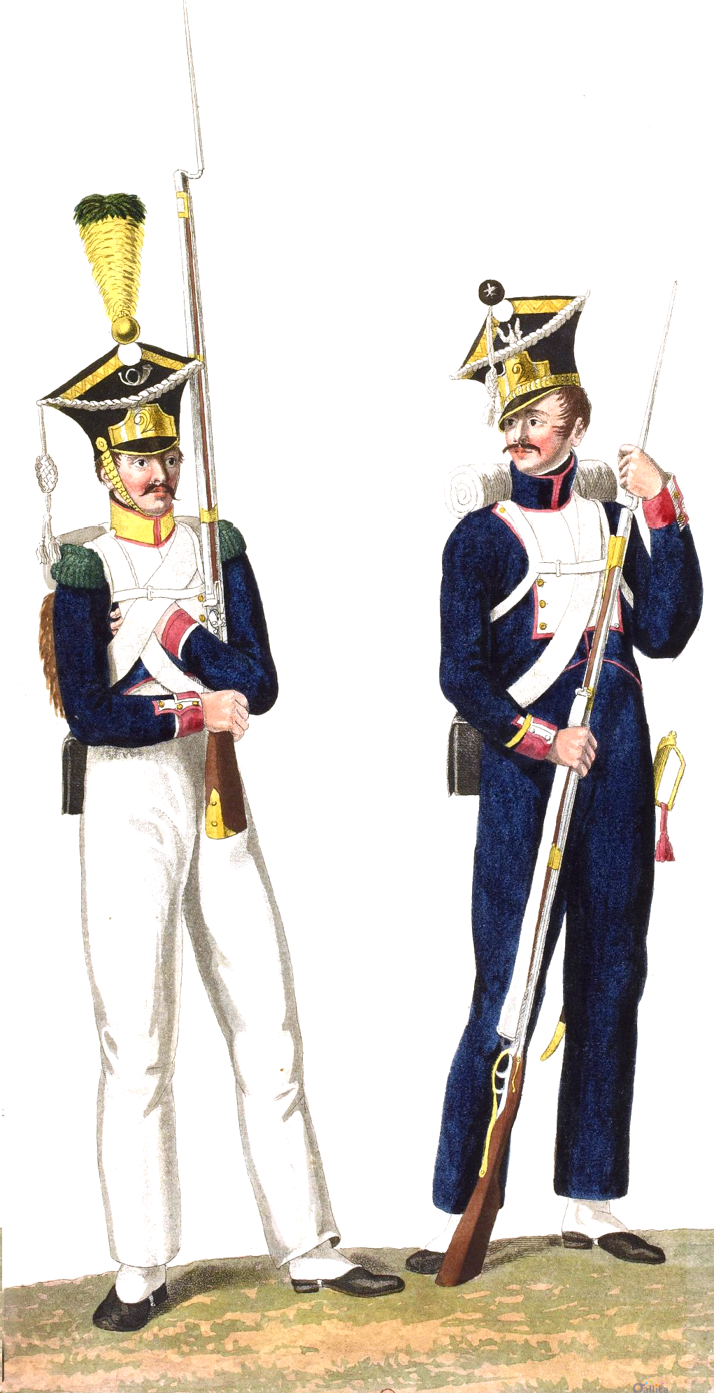 Voltigeur and Fusilier of 2nd Infantry Regiment of the Duchy of Warsaw